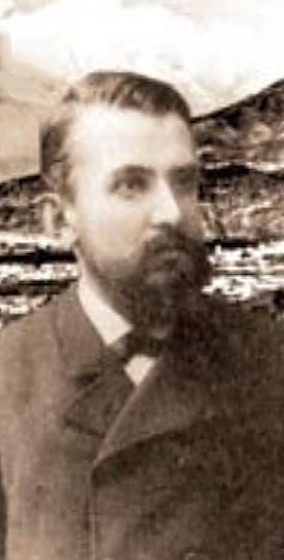 Photo of German classical and economic historian which died in 1929 Carl Julius Belloch